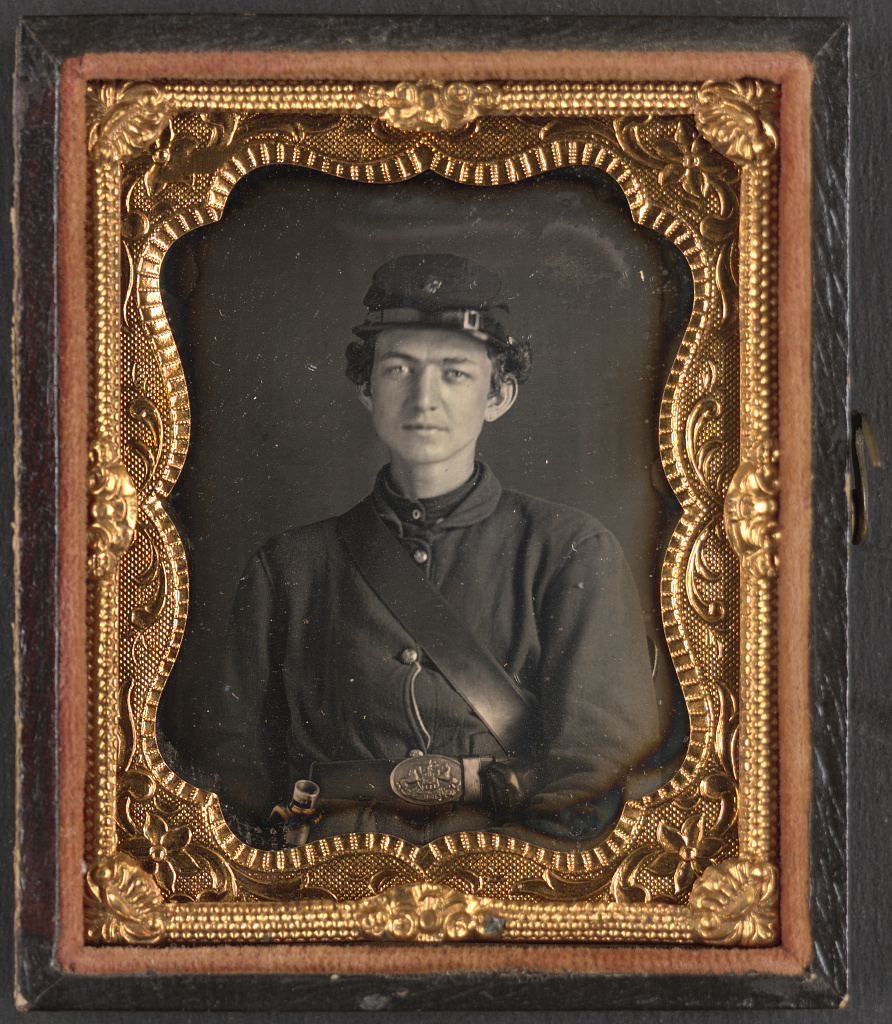 [Unidentified soldier in Union uniform of the 119th Pennsylvania Volunteer Infantry, wearing the belt buckle of the Philadelphia Reserve Brigade] [between 1861 and 1865] 1 photograph : ninth-plate daguerreotype ; case 3 x 2.5 in. Notes: Title devised by Library staff. Use digital images. Original served only by appointment because material requires special handling. For more information see: ( Photo shows belt buckle with "RB" below state seal. Deposit; Tom Liljenquist; 2013; (D 067). Purchased from: J. Cosmas Vintage Photography, 2013. Forms part of: Liljenquist Family Collection of Civil War Photographs (Library of Congress). Forms part of: Daguerreotype collection (Library of Congress). Subjects: Soldiers--Union--1860-1870. Military uniforms--Union--1860-1870. United States--History--Civil War, 1861-1865--Military personnel--Union. Format: Portrait photographs--1860-1870. Daguerreotypes--1860-1870. Repository: Library of Congress, Prints and Photographs Division, Washington, D.C. 20540 USA, Part Of: Daguerreotype collection (Library of Congress) (DLC) 95861318 Liljenquist Family collection (Library of Congress) (DLC) 2010650519 More information about this collection is available at Higher resolution image is available (Persistent URL): Call Number: DAG no. 1450